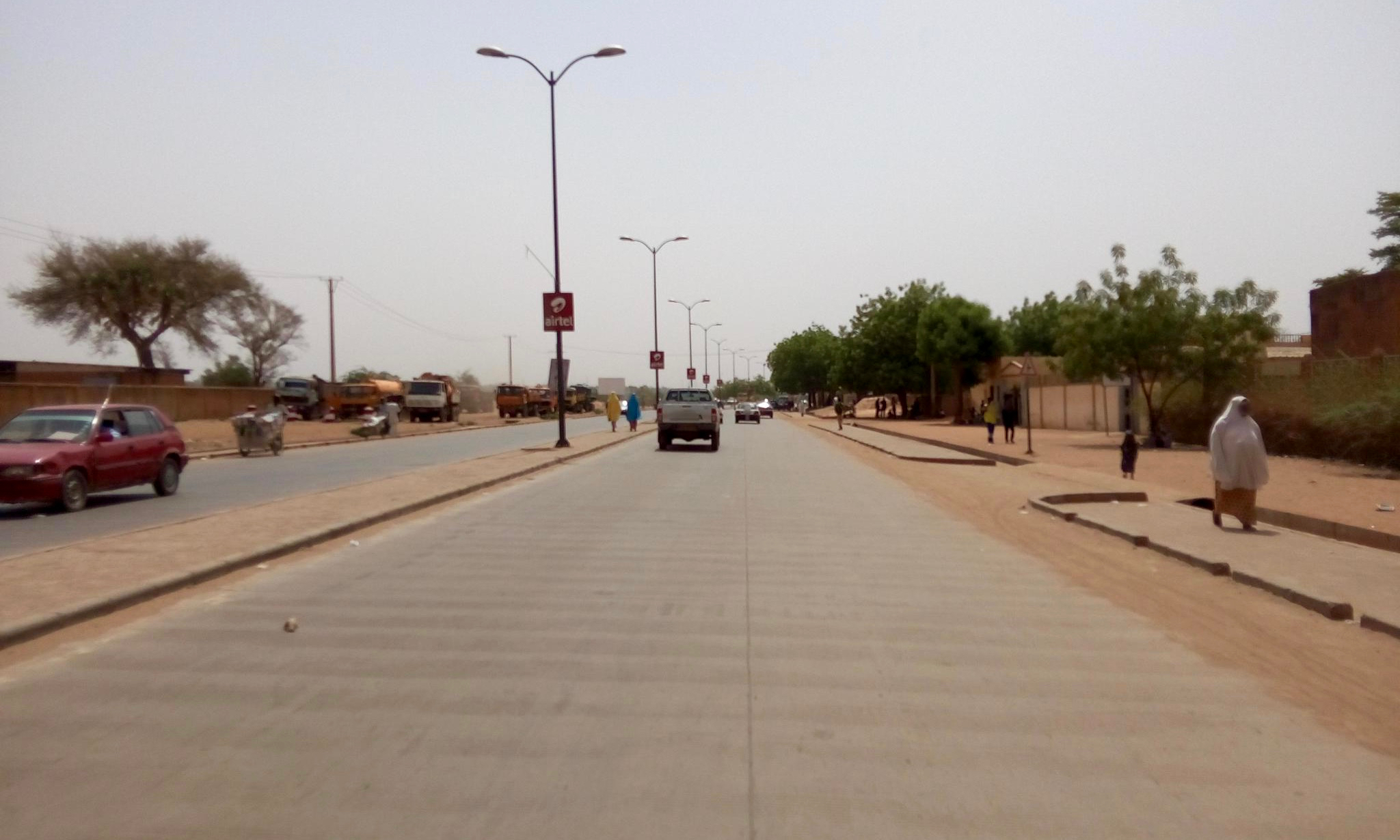 Boulevard du Developpement, Pont Kennedy quarter, Niamey.